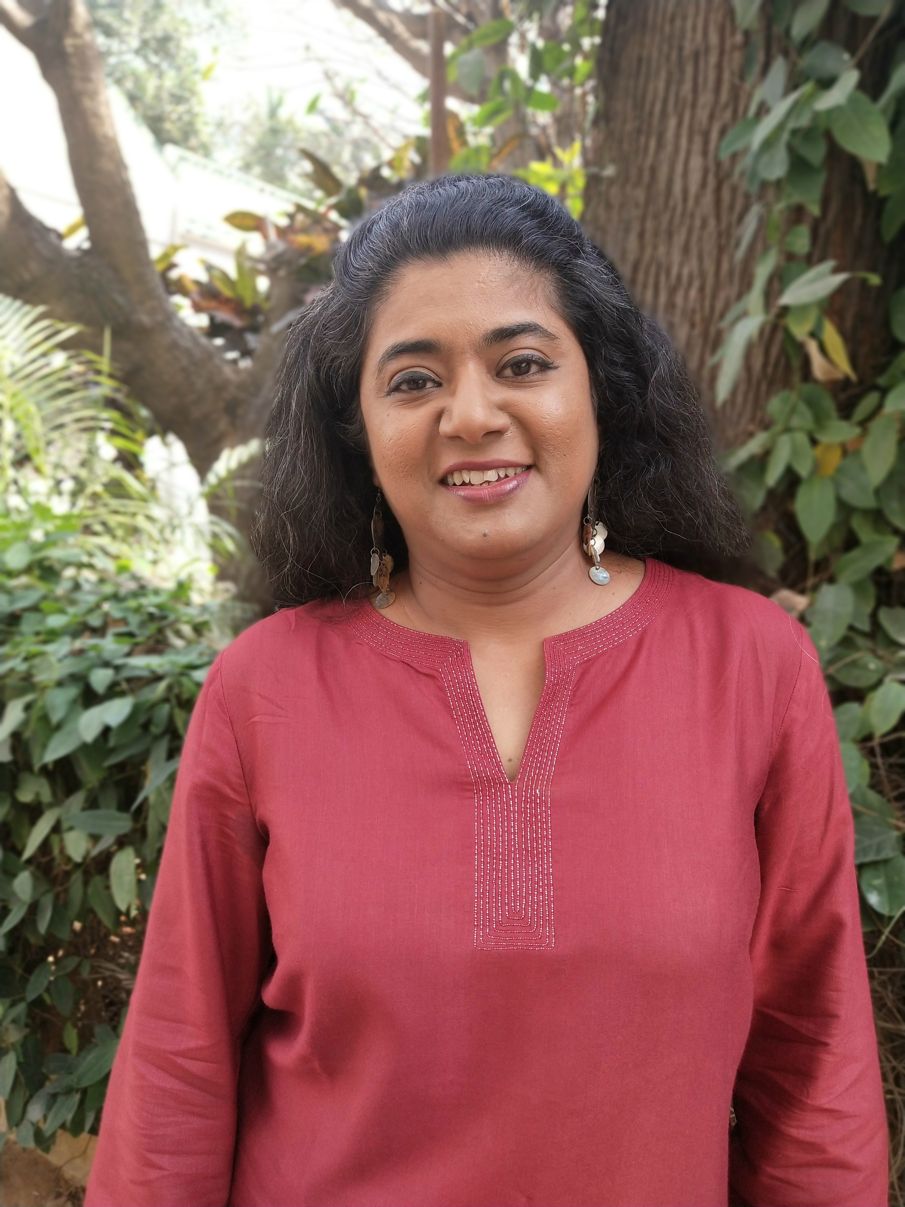 Popular journalist and film critic Anna M M Vetticad at the 15th national meeting organised by The Network of Women in Media, India on February 2020 in Bengaluru, India.